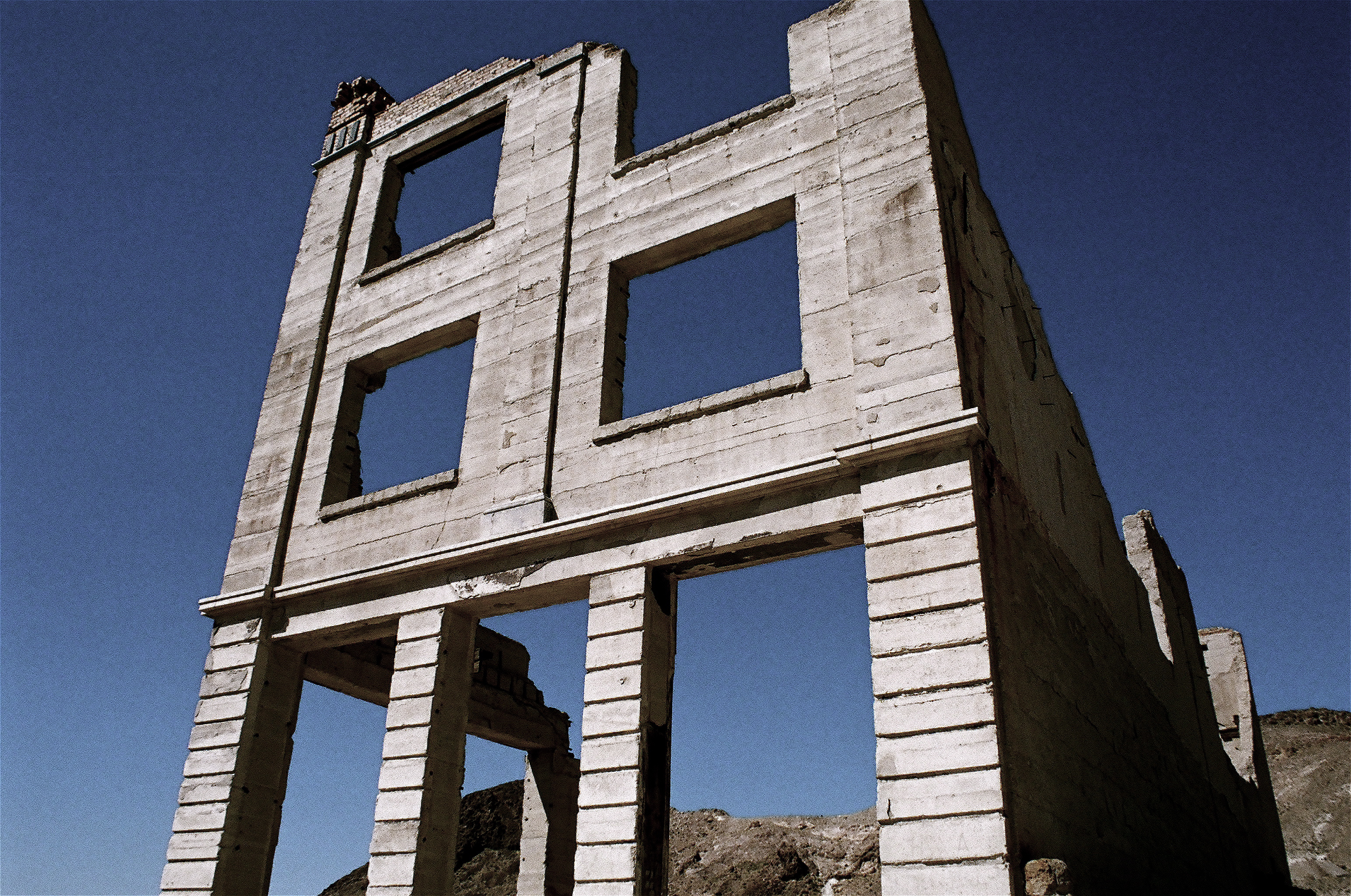 Ruins of a building (the Cook bank bldg., on Golden Street) in Rhyolite Nv. A ghost town that was once a thriving community